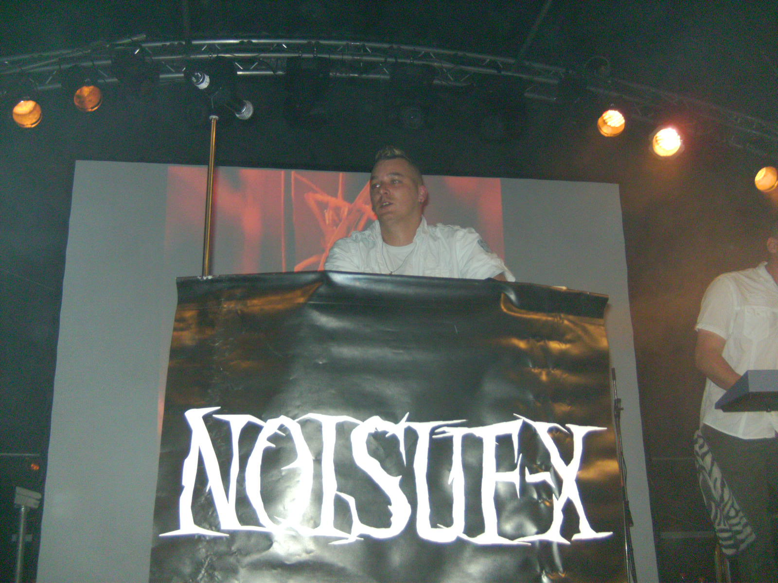 Noisuf-X (Side project of X-Fusion) on stange at the Essen Originell 2011